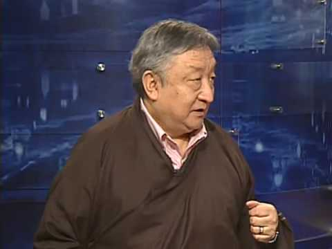 Kunleng invites Kasur Lodi Gyari to discuss the latest round of meetings between Beijing and Dharamsala that took place January, 2010.